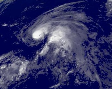 Typhoon Meranti at peak intensity